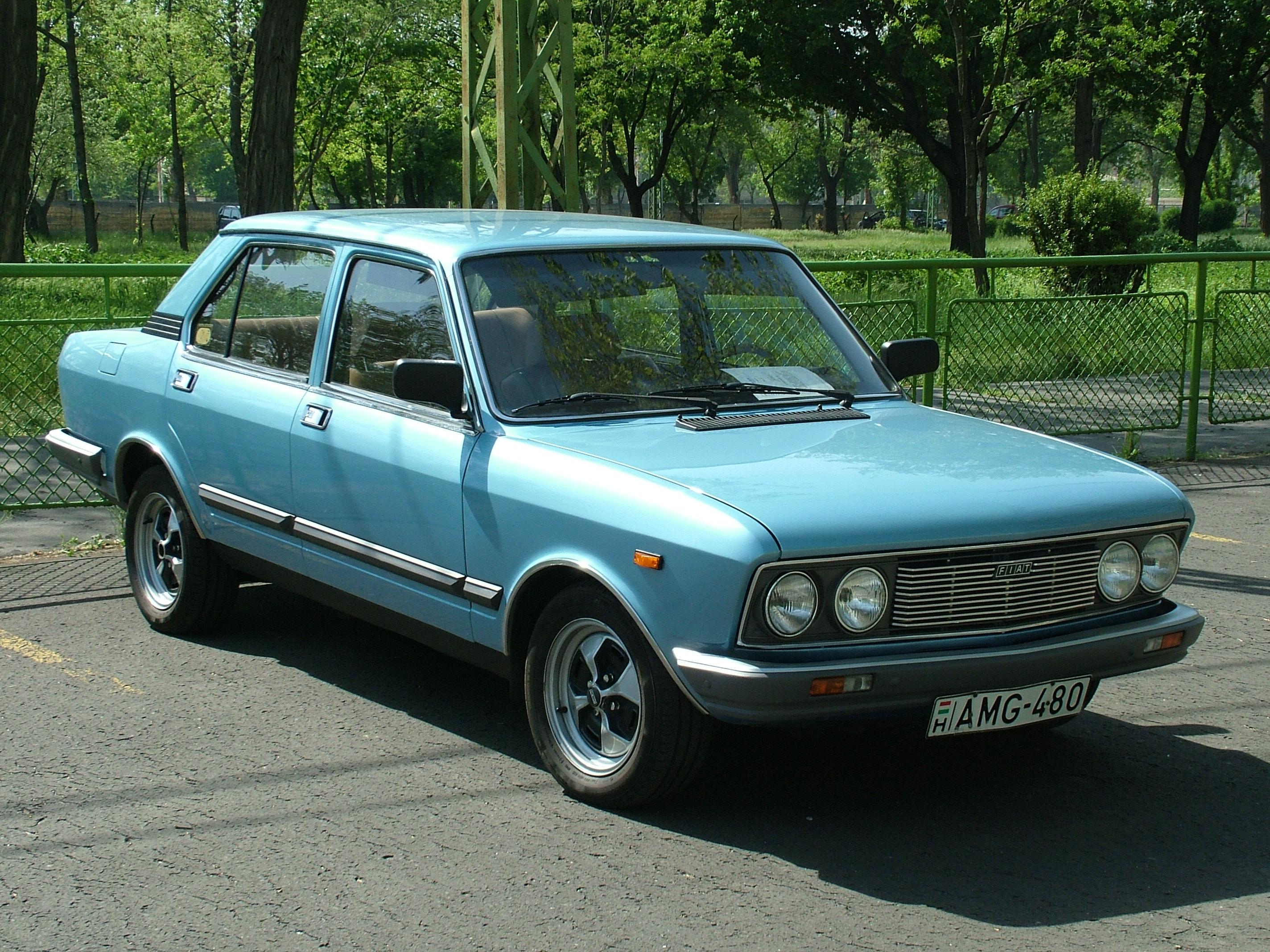 A visitor's Fiat 132 2000 GLS, 1980